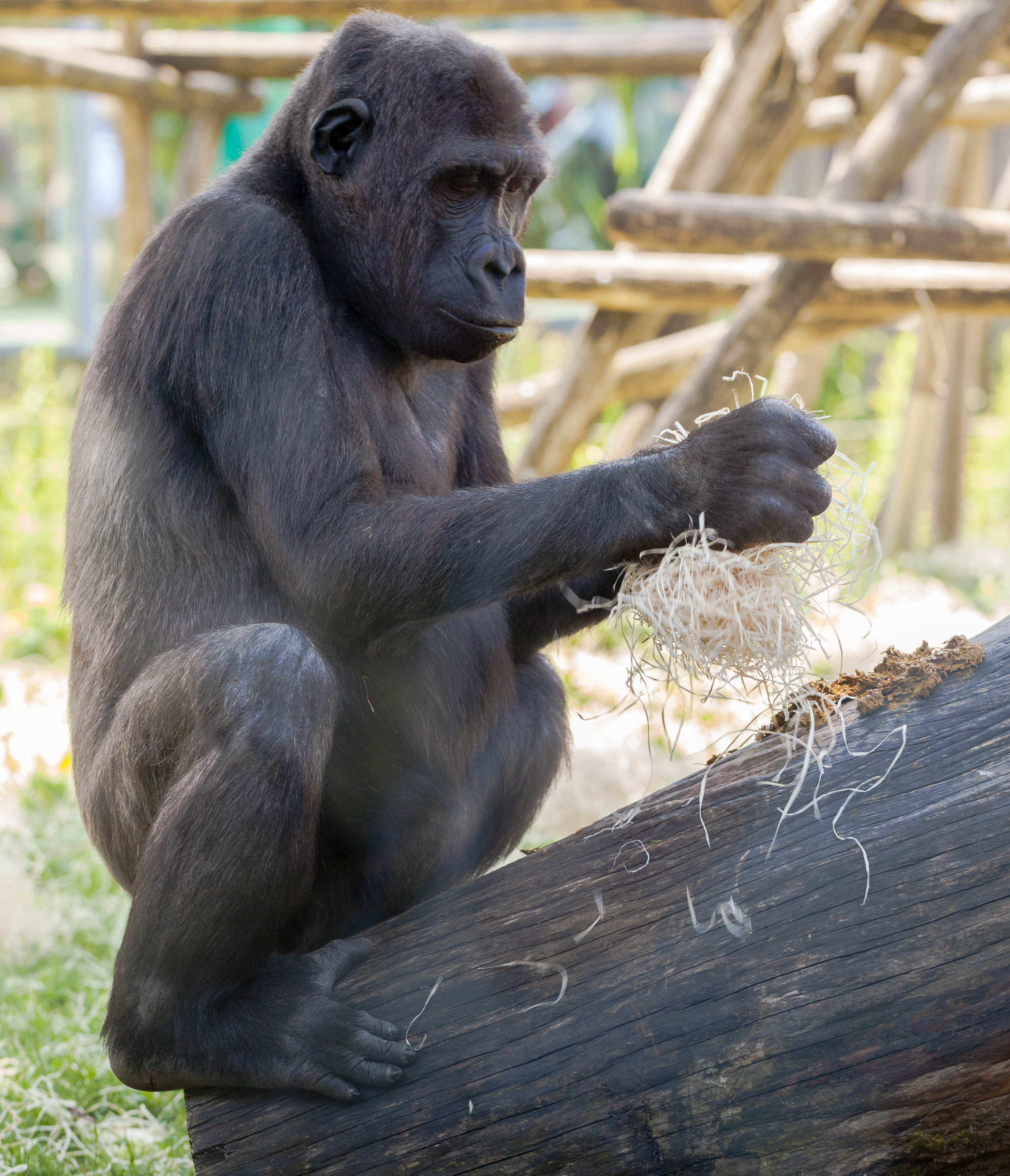 Western gorilla (Gorilla gorilla), Tierpark Hellabrunn, Munich, Germany